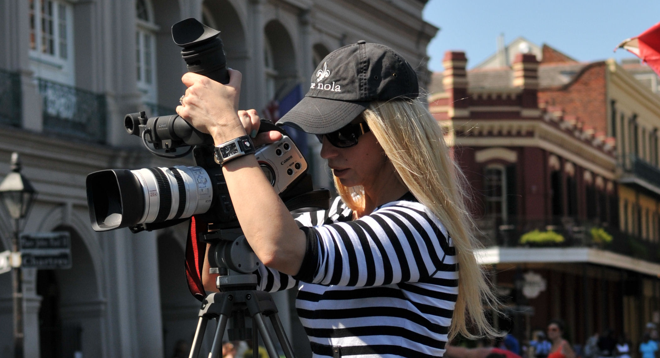 Amy Serrano